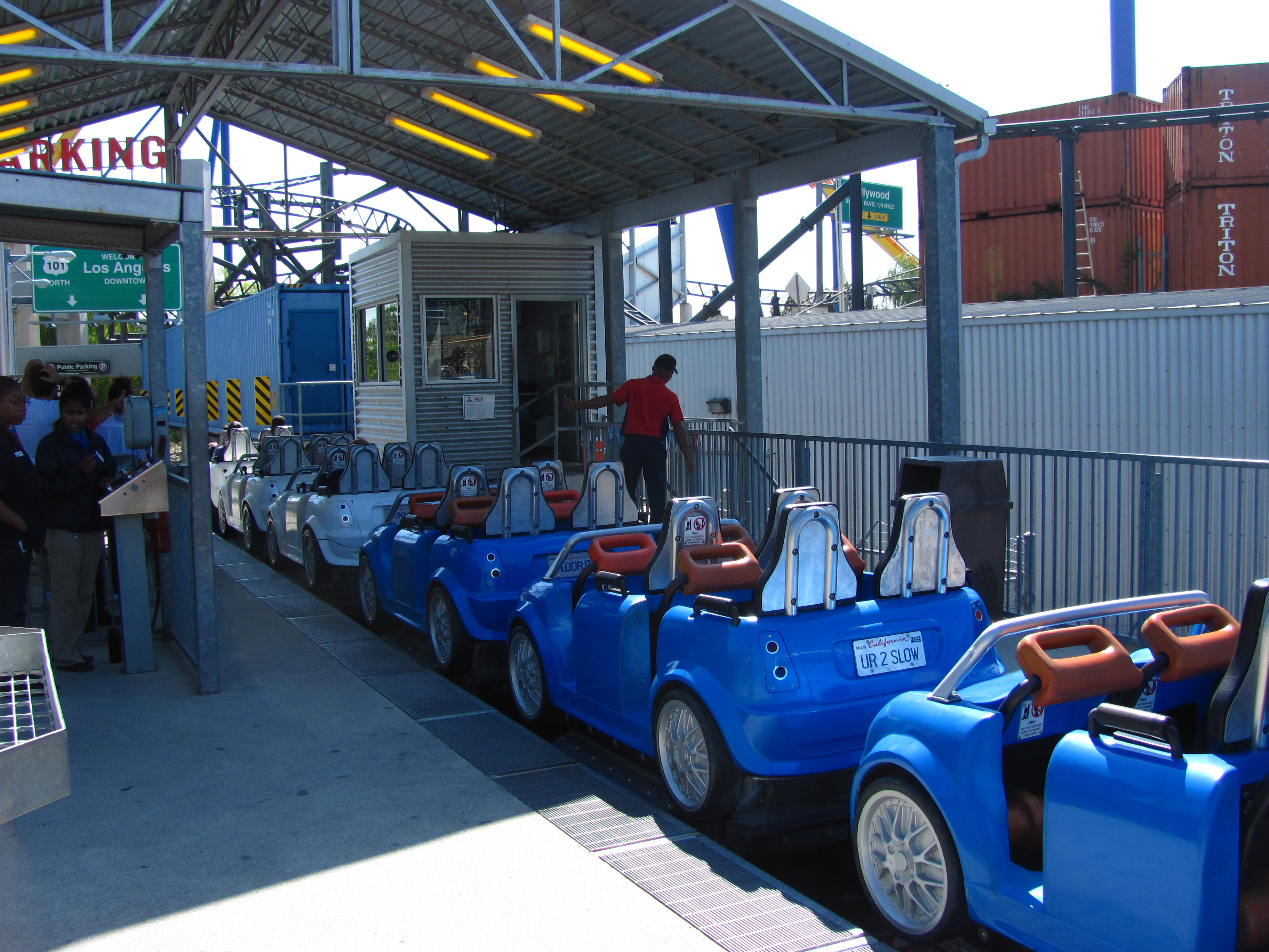 Canada's Wonderland 145